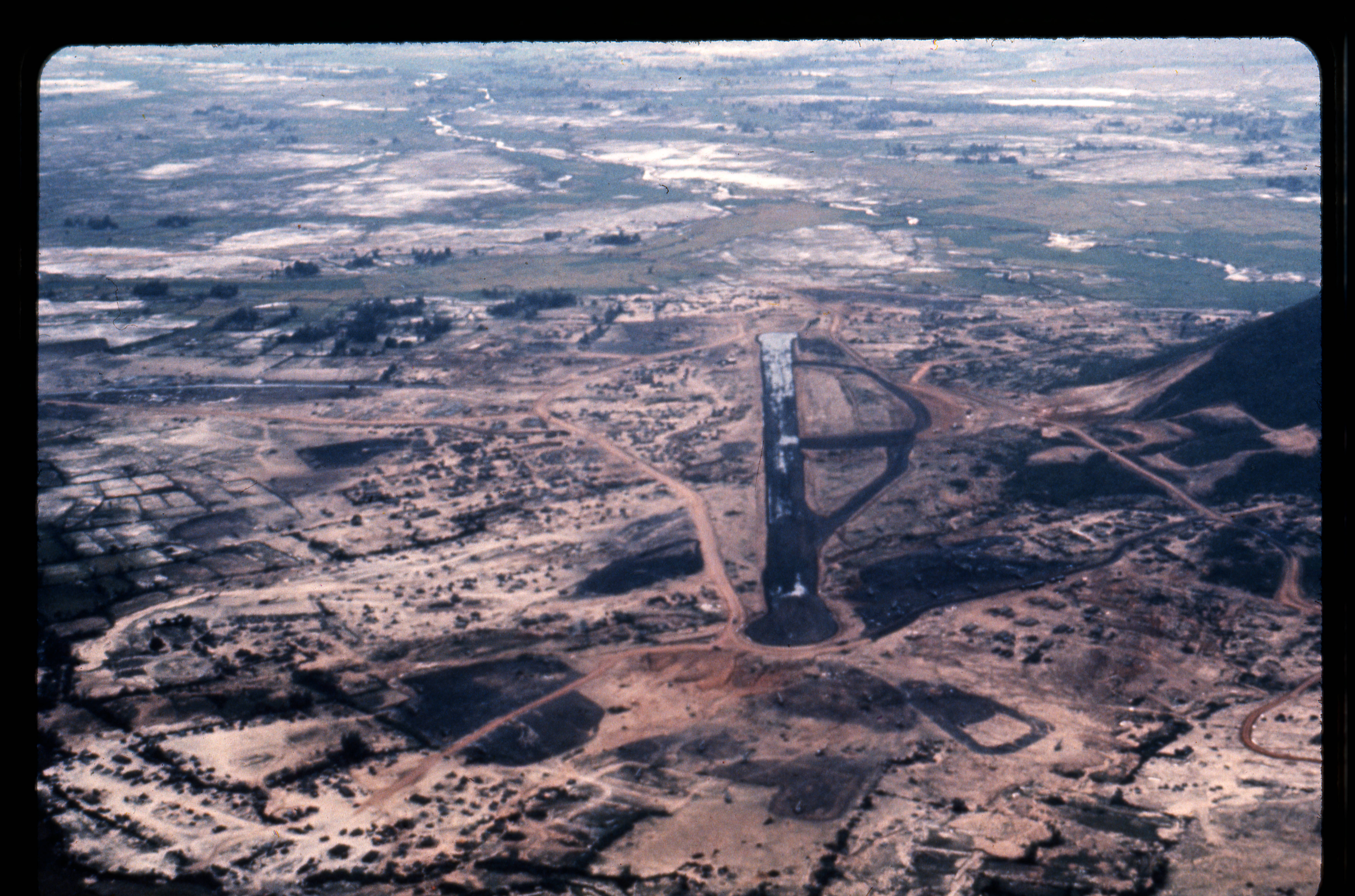 View of LZ Hammond located along Route 1 north of Qui Nhon. A forward helicopter support area, a C-130 runway and a cantonment area have been constructed by the 8th Engineer Battalion supported by the 19th Engineer Battalion. The area was used most recently in Operation THAYER.